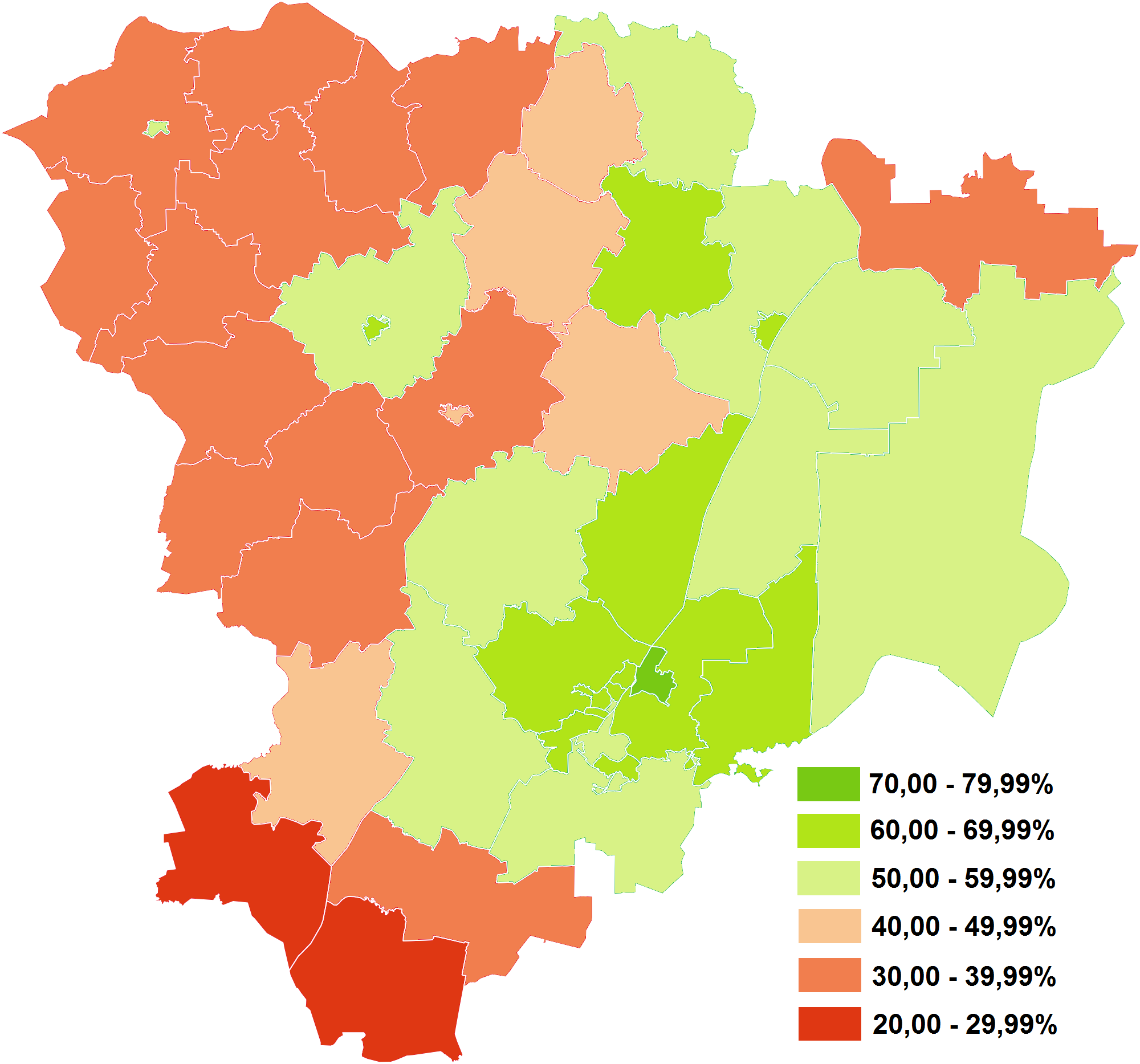 The results of the referendum in Volgograd Oblast, Russia in 2018 by territorial election commissions